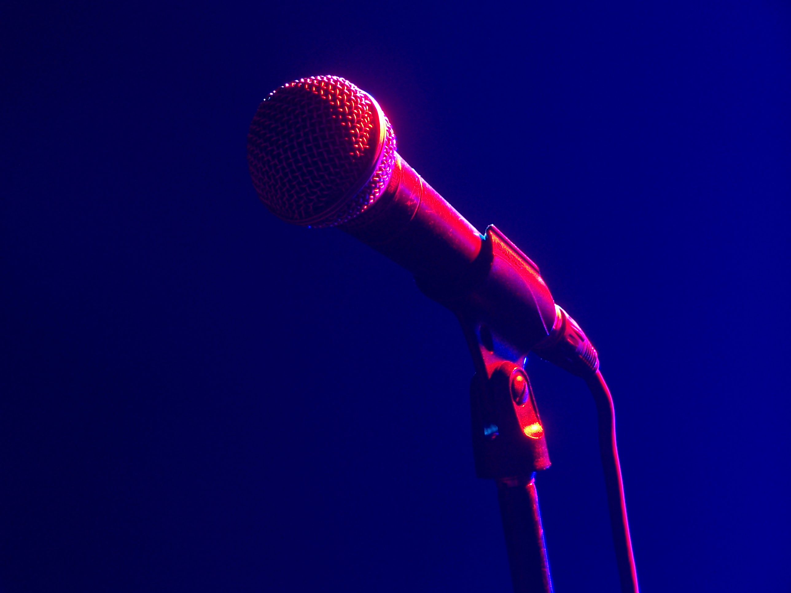 Microphone